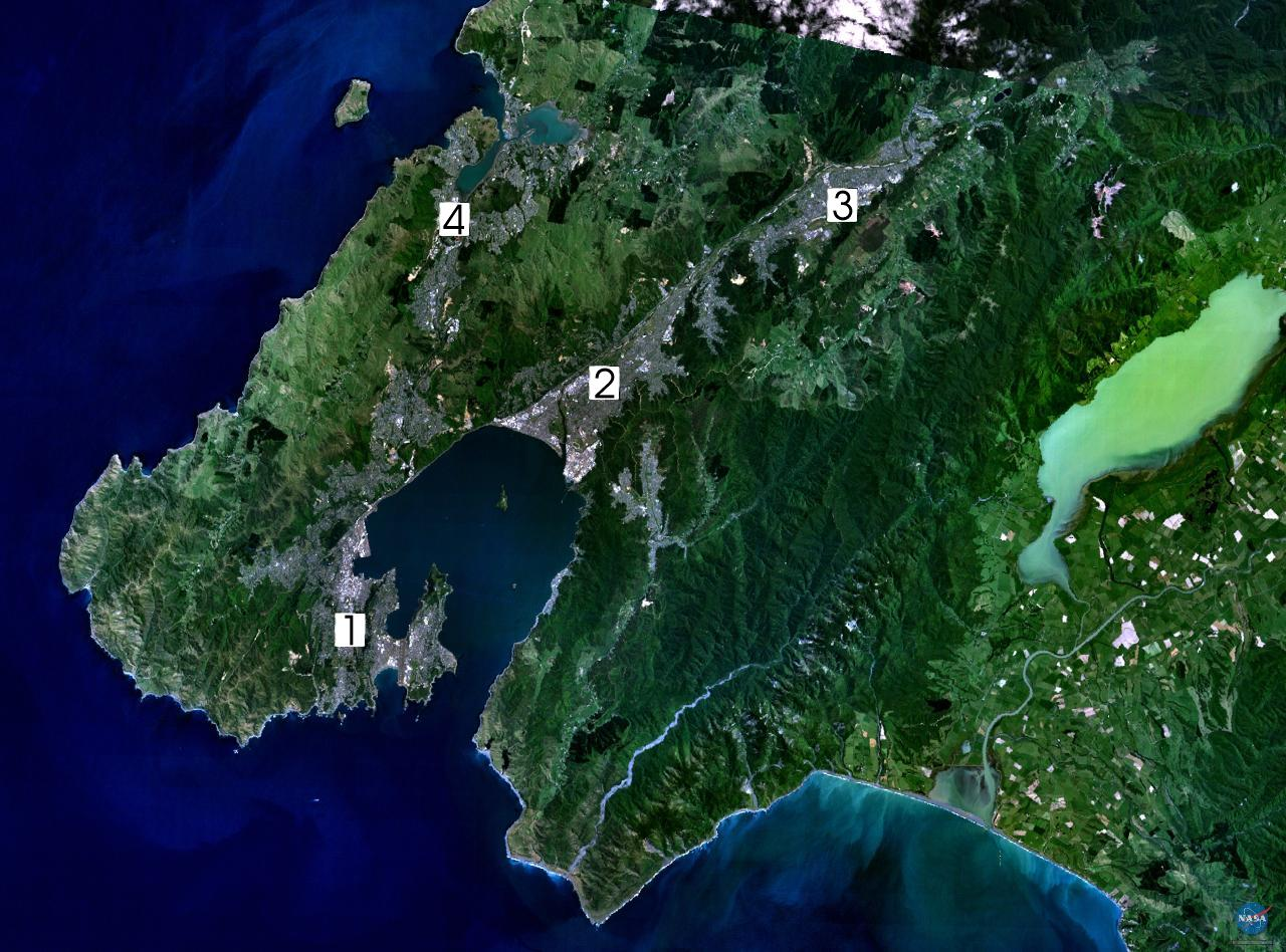 Satellite photo of the Wellington conurbation: (1) Wellington; (2) Lower Hutt; (3) Upper Hutt; (4) Porirua.